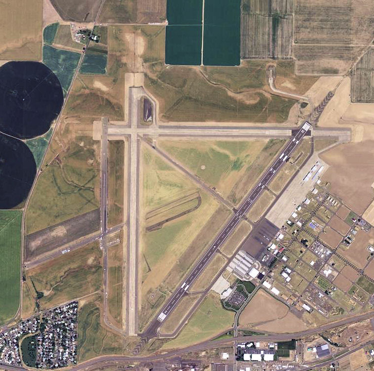 USGS digital orthophoto of Walla Walla Regional Airport in the U.S. state of Washington